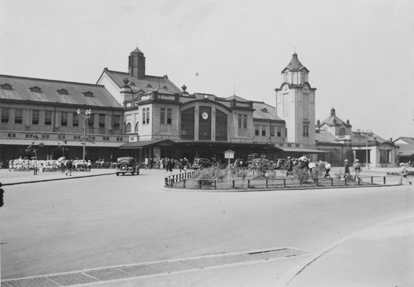 Kyoto Station building (built in 1914 and burnt down in 1950), Kyoto, Japan